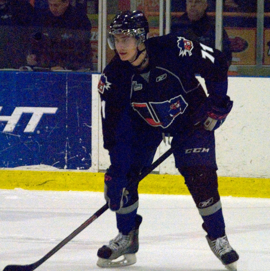 Kirill Kabanov #71 Lewiston MAINEiacs vs. Quebec Remparts, February 12, 2011. Quebec Major Junior Hockey League (QMJHL). Remparts won 4-2. This photo also appears in Sarah Connors Flickr set "MAINEiacs vs. Remparts, 2/12/11" (Set of 35)